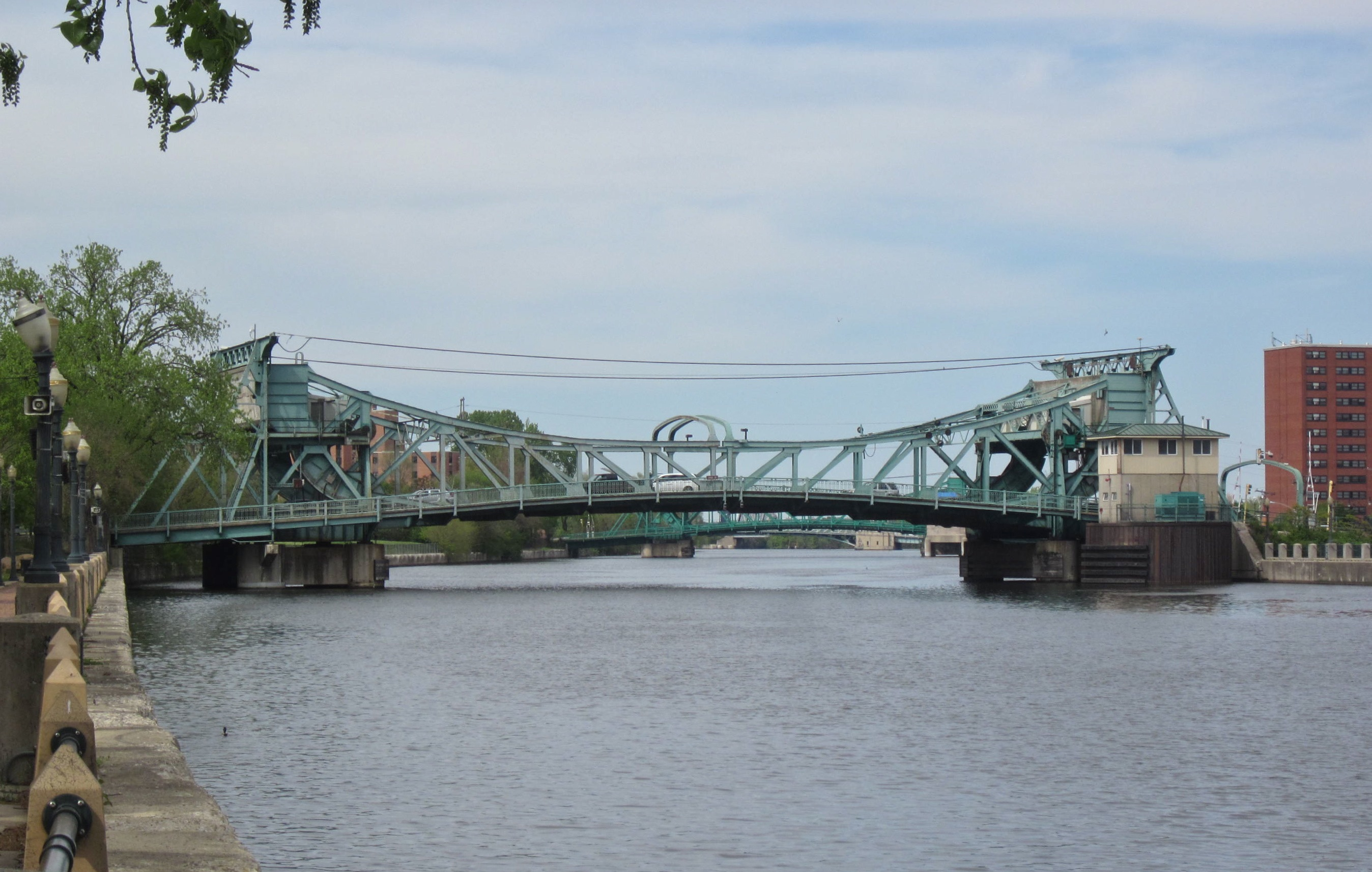 The south side of the Cass Street Bridge, in Joliet, Illinois, viewed from the west riverbank. It carries westbound US Route 30. Built in 1933, it is one of four Scherzer Rolling Lift bascule bridges in Joliet, all of which span the Des Plaines River. (A fifth bascule bridge spanning the Des Plaines in Joliet is the Ruby Street Bridge, a trunnion bascule bridge.)